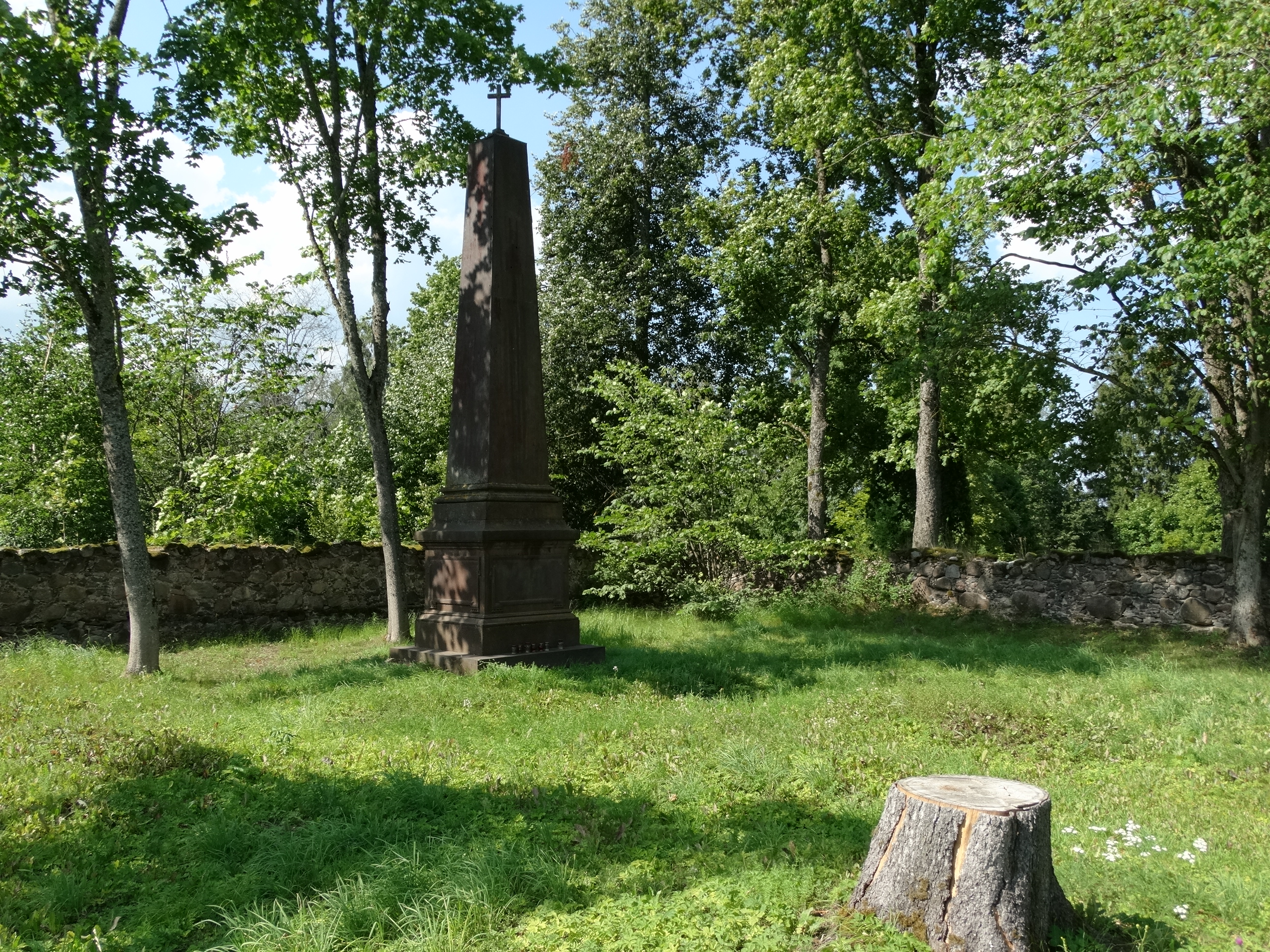 Memorial obelisk, old cemetery in Onuškis, Rokiškis District, Lithuania